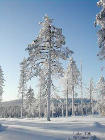 Lapland landscape.